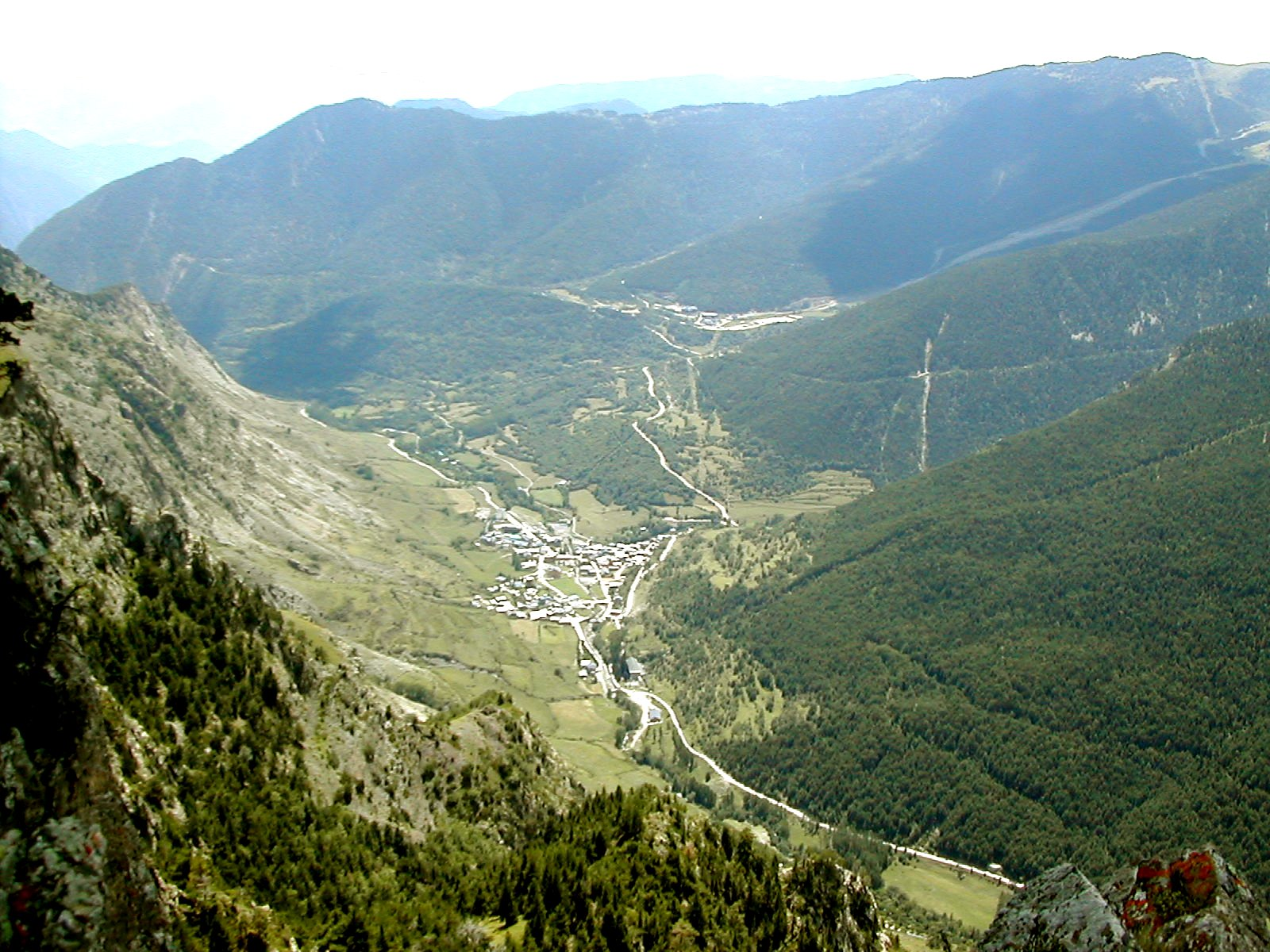 Village of Espot